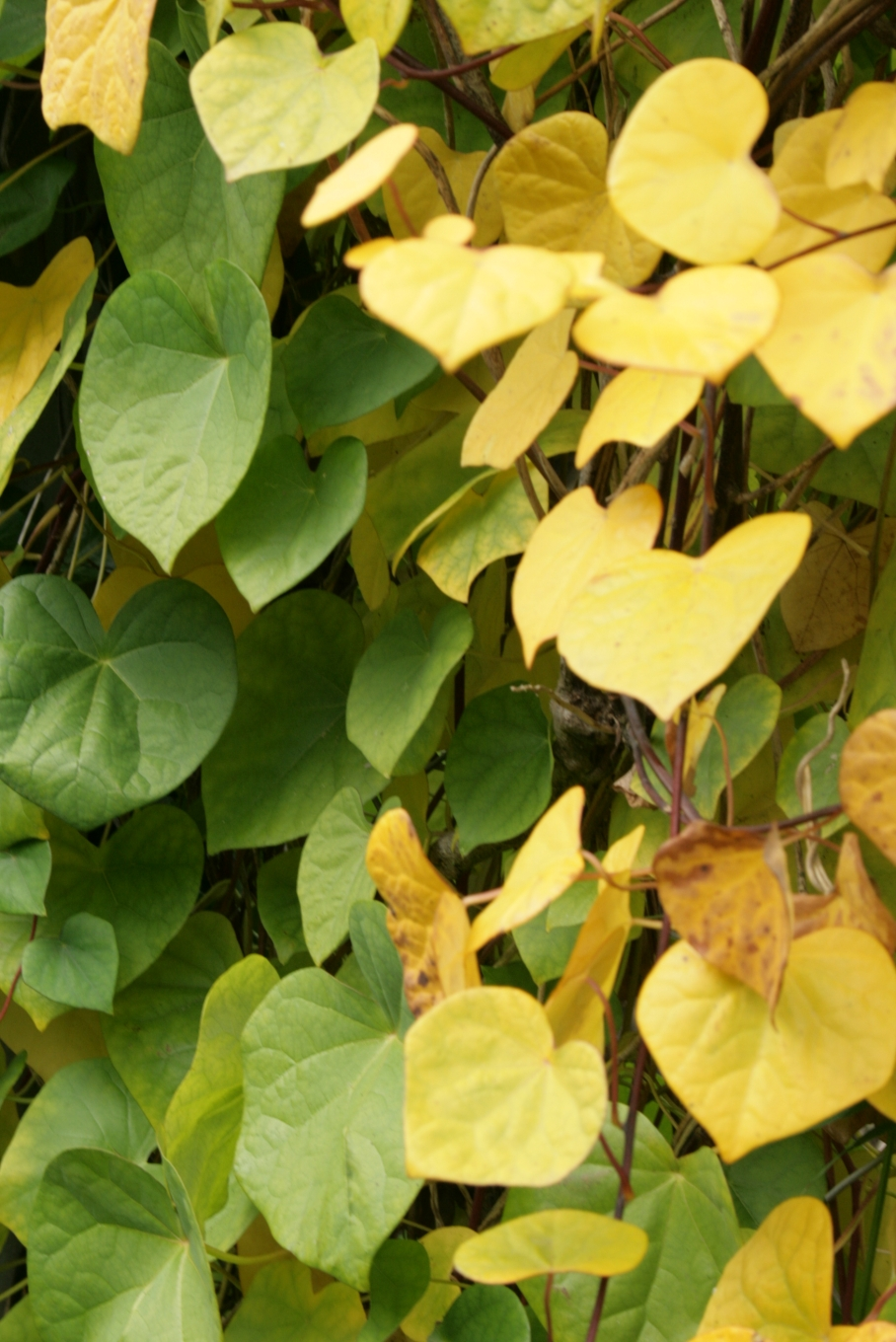 Menispermum dauricum: Foliage (Photo from the Botanical Garden of Aarhus, Denmark)